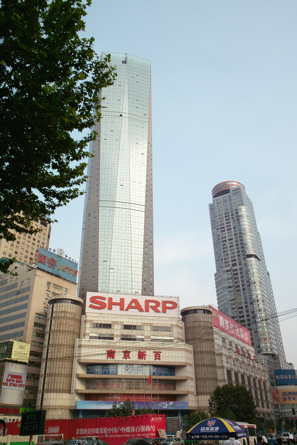 Xinbai, Nanjing